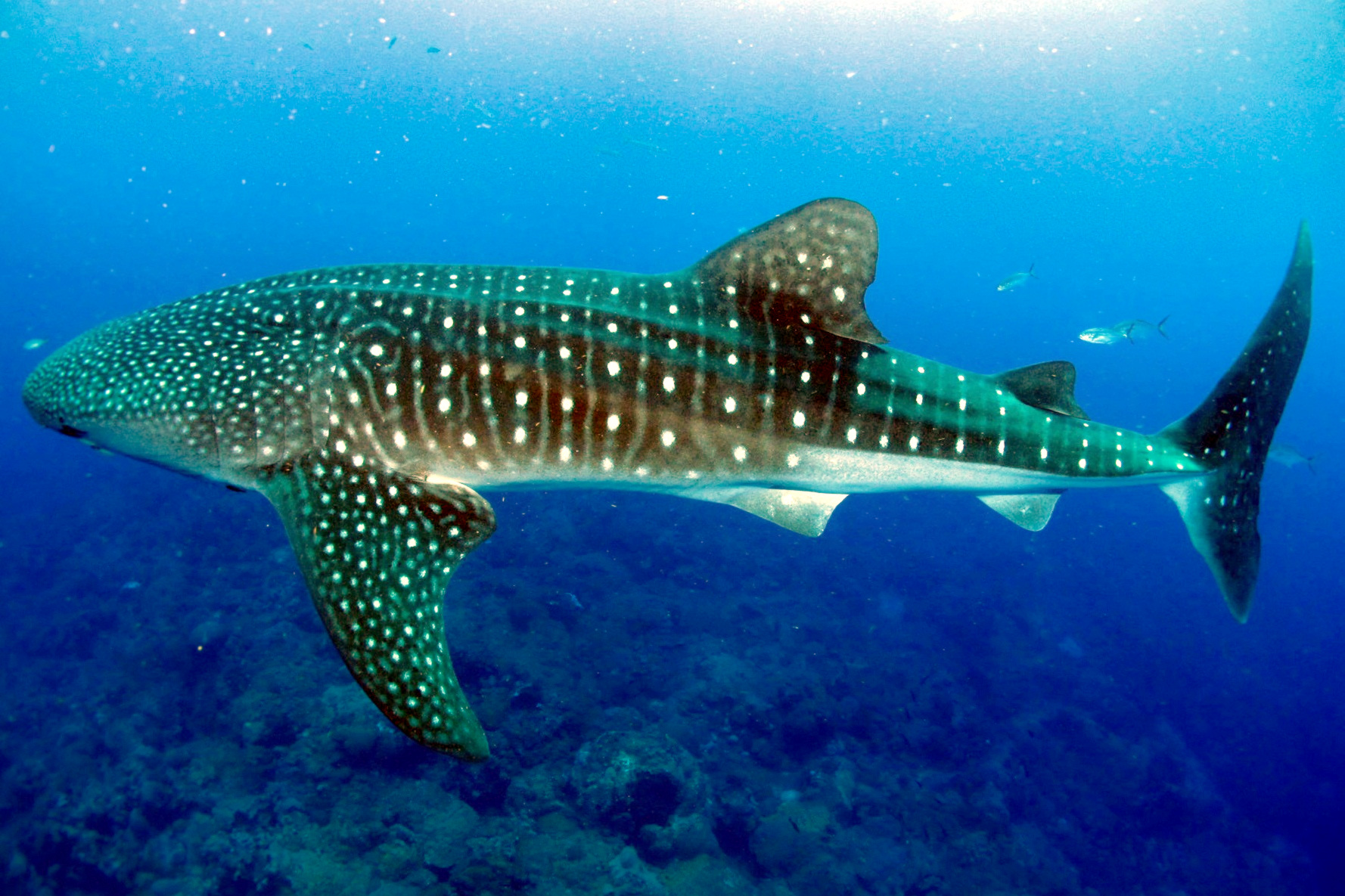 Whale shark (Rhincodon typus) at the Flower Garden Banks National Marine Sanctuary